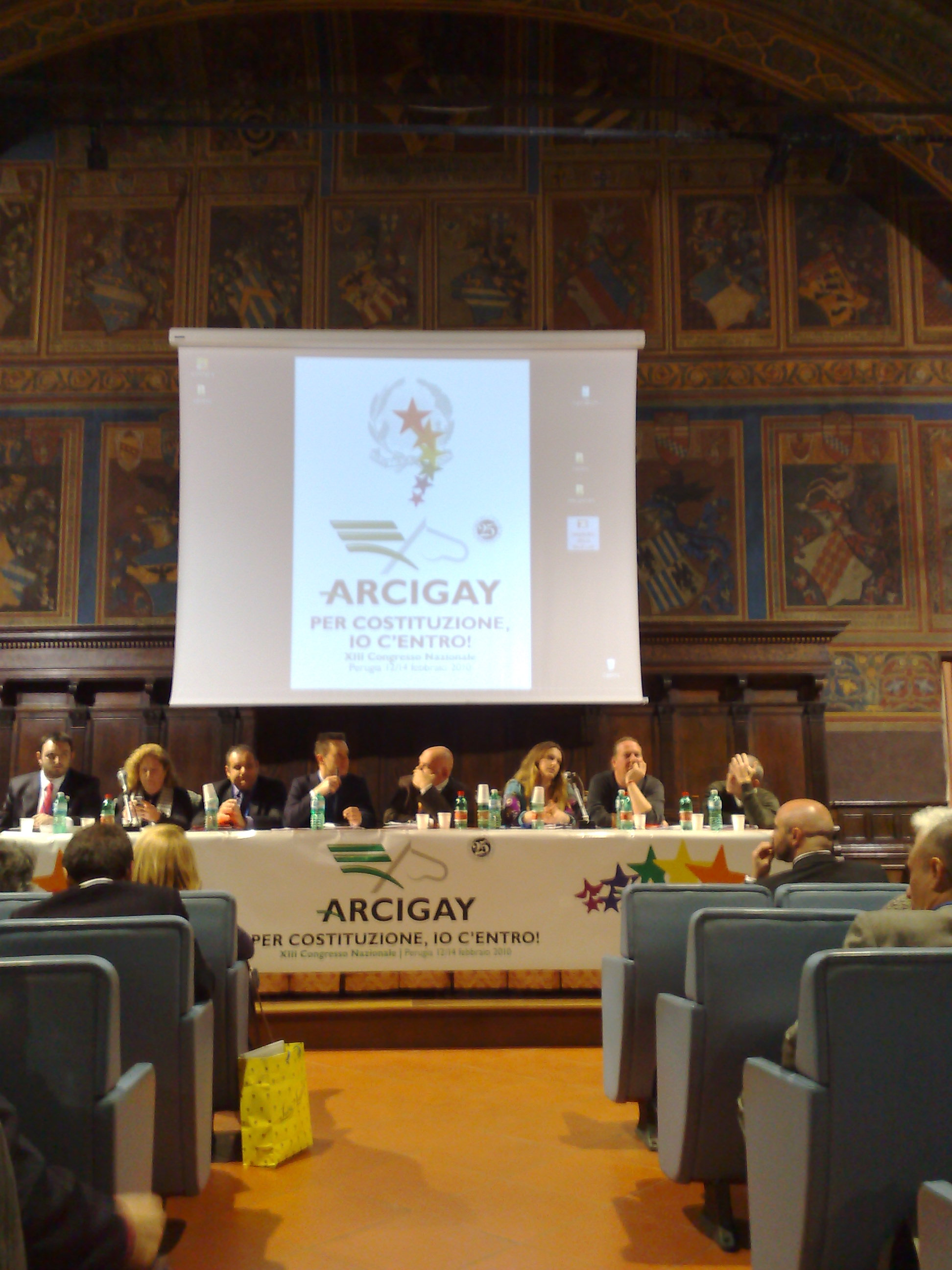 Arcigay national congress 2010 - Perugia, Sala dei Notari, Palazzo dei Prior